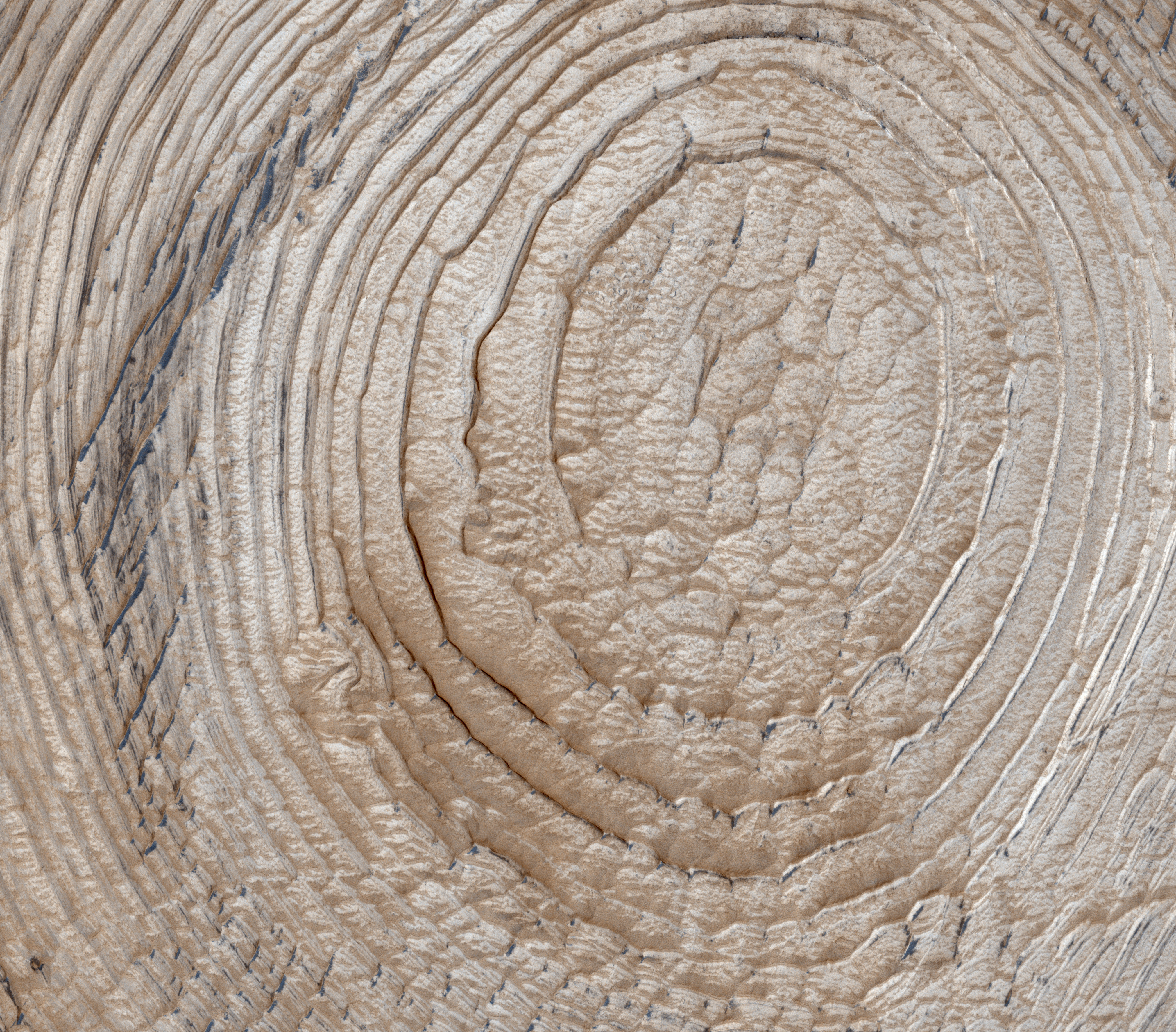 Layers filling a crater in Schiaparelli on Mars imaged by the HiRISE instrument aboard the Mars Reconnaissance Orbiter. The image resolution is close to 27.2 cm per pixel.